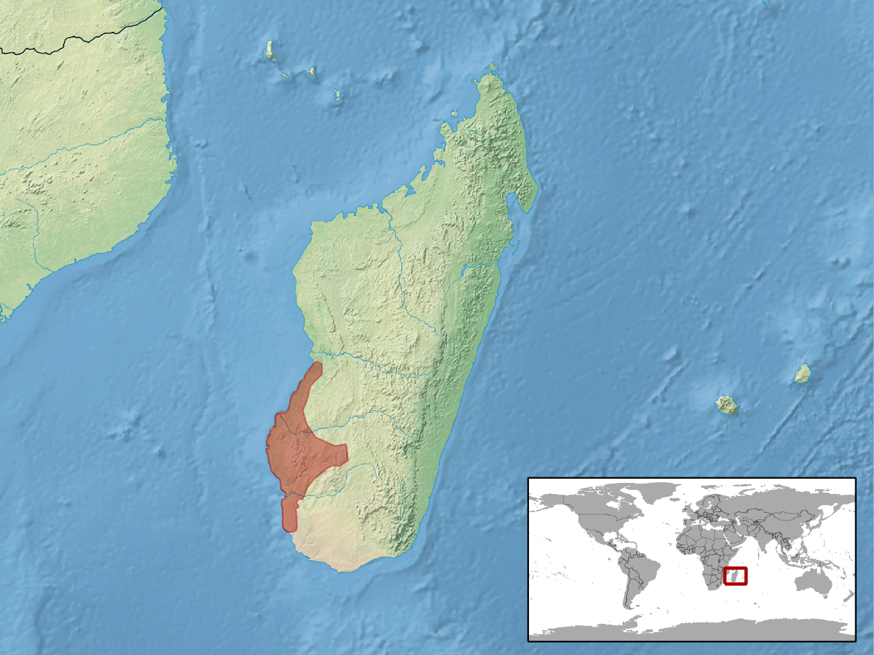 geographic distribution of Paroedura vahiny